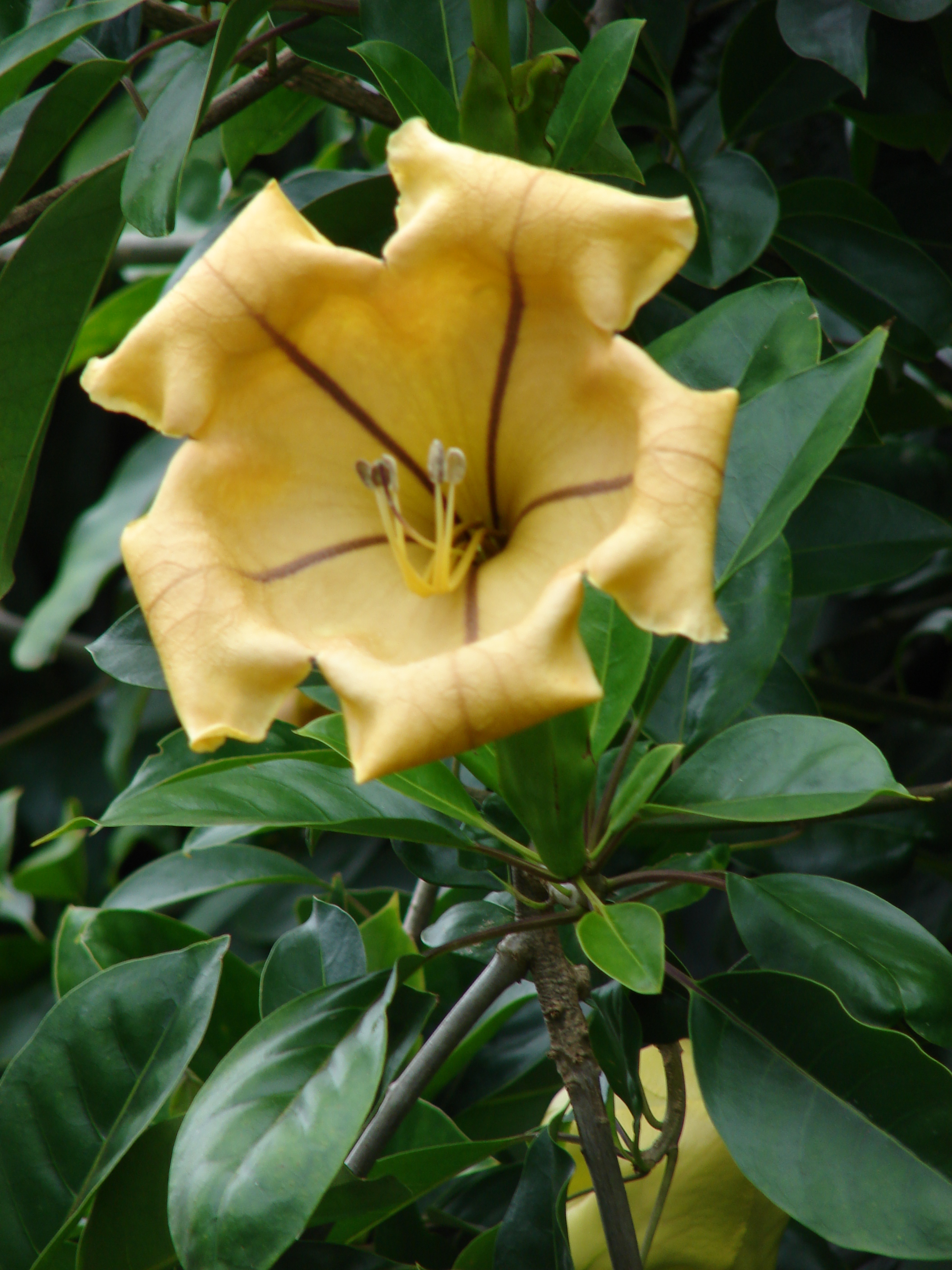 Solandra maxima (flower and leaves). Location: Maui, Keokea